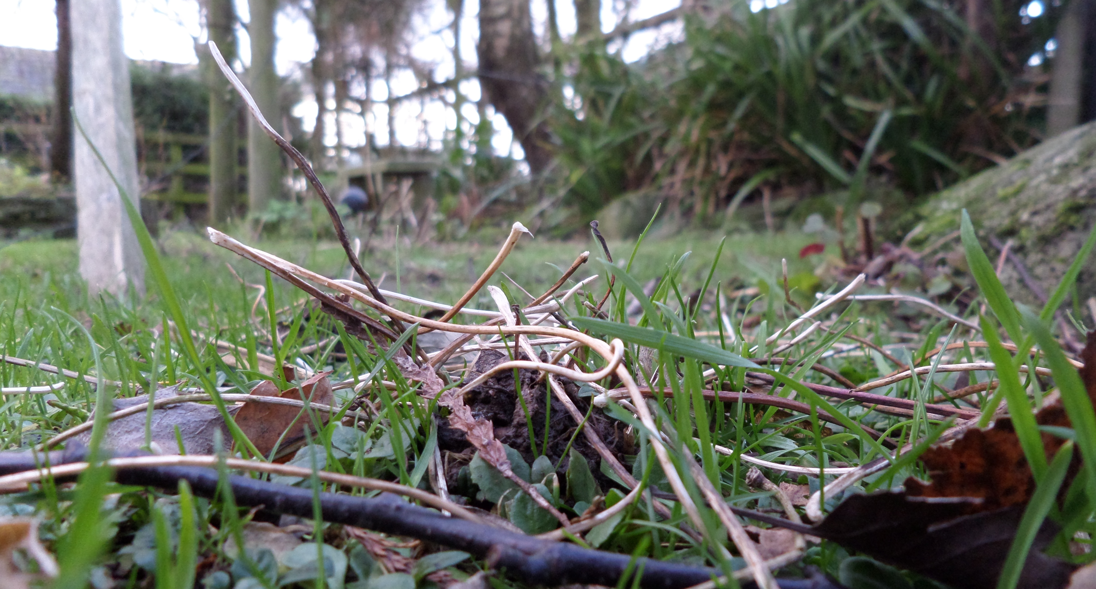 Common Earthworm (Lumbricus terrestris) leaf stalk Cast & Plug (side view), Chapeltoun, North Ayrshire, Scotland